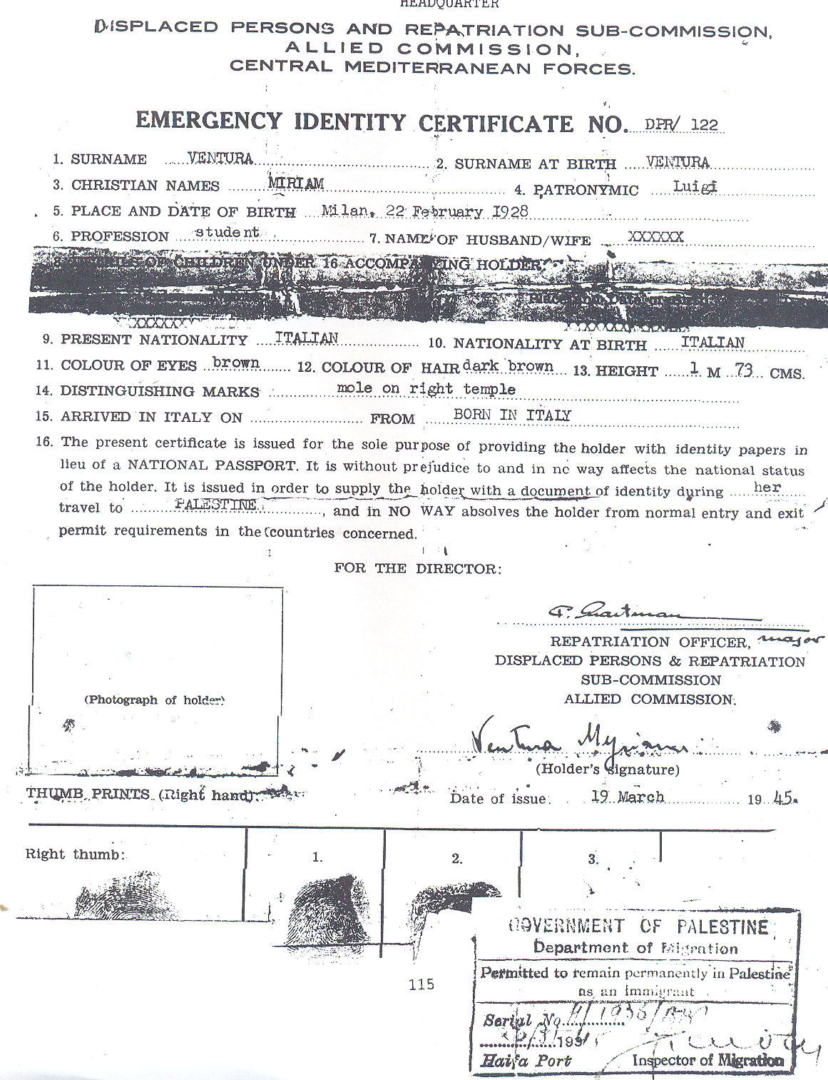 Emergency_identity_certificate of an Italian immigrant to Israle, 1945